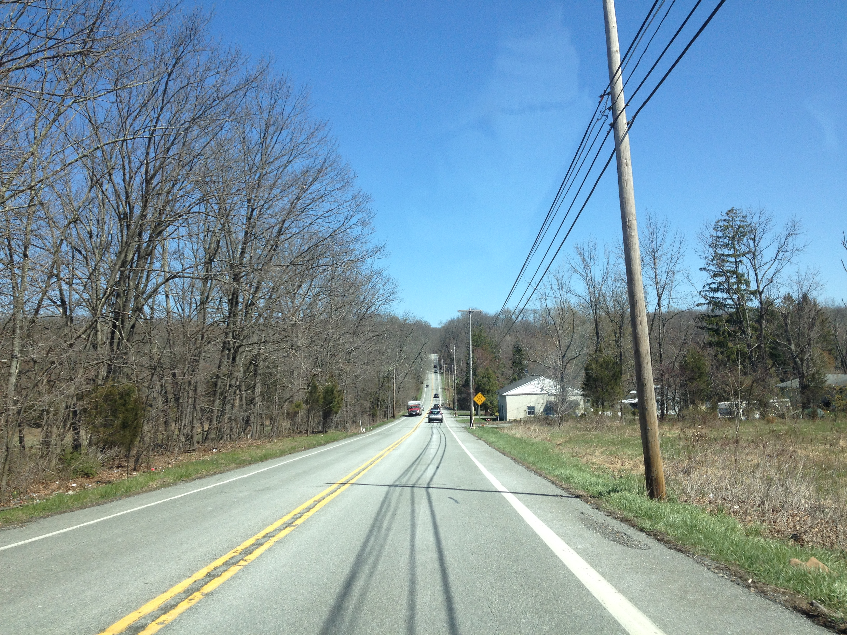 Northbound Pennsylvania Route 663 (Layfield Road) past the intersection with Little Road in New Hanover Township.